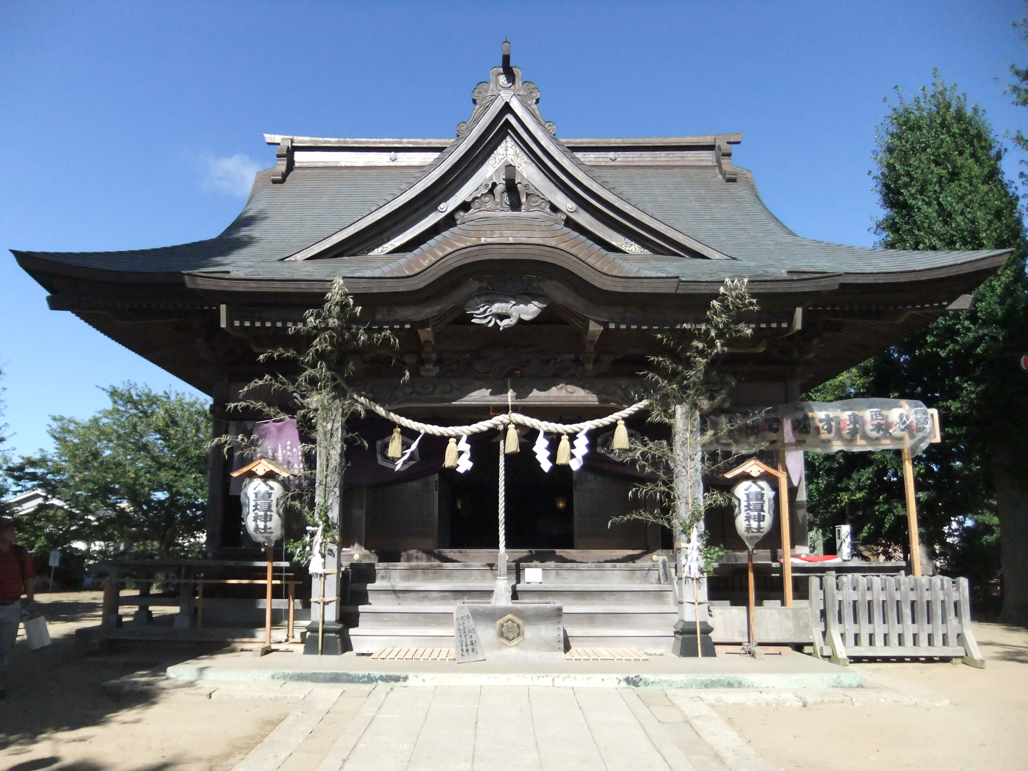 Yaegaki Shrine in Sōsa-shi, Chiba